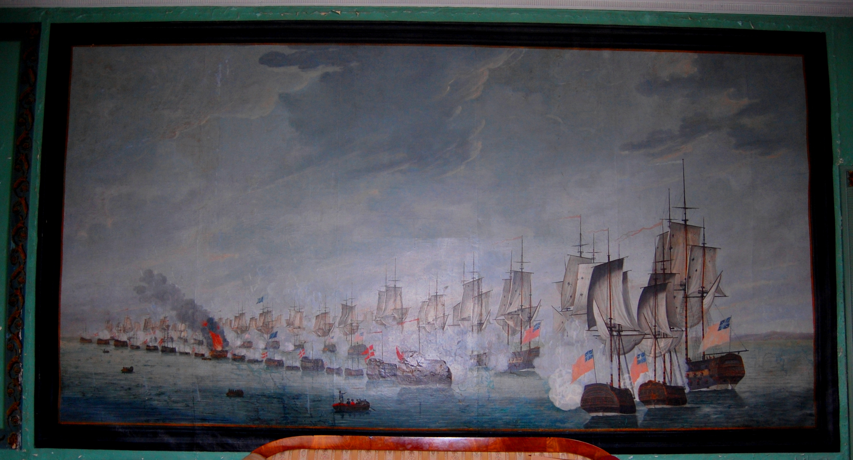 Wallpainting of the Battle of Copenhagen at Brødretomten in Bergen, Norway.